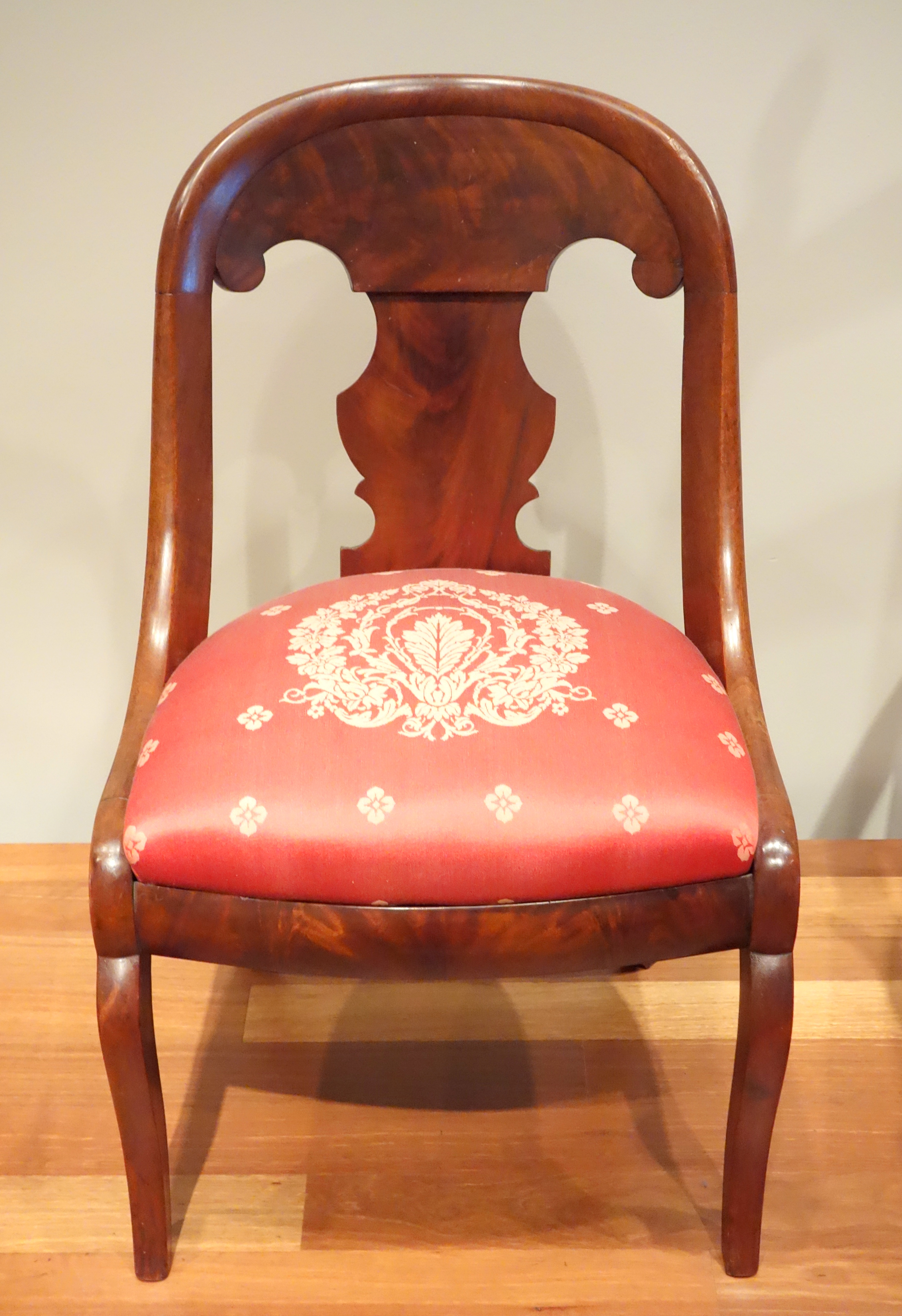 Exhibit in the De Young Museum, San Francisco, California, USA. This artwork is in the public domain because the artist died more than 70 years ago.